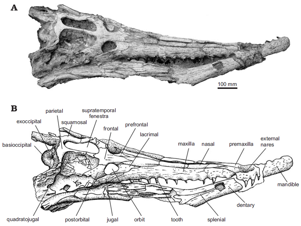 Arambourgisuchus khouribgaensis gen. et sp. nov., OCP DEK−GE 18, Sidi Chenane, Morocco, late Palaeocene, skull and mandible in dorsal view. Photograph (A) and explanatory drawing of the same (B).